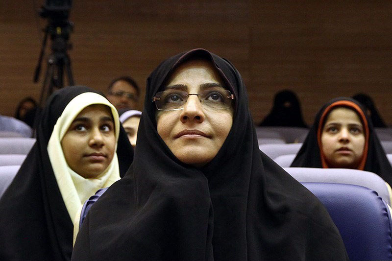 Shohreh Pirani, wife of Darioush Rezaeinejad and mother of Armita Rezaeinejad.